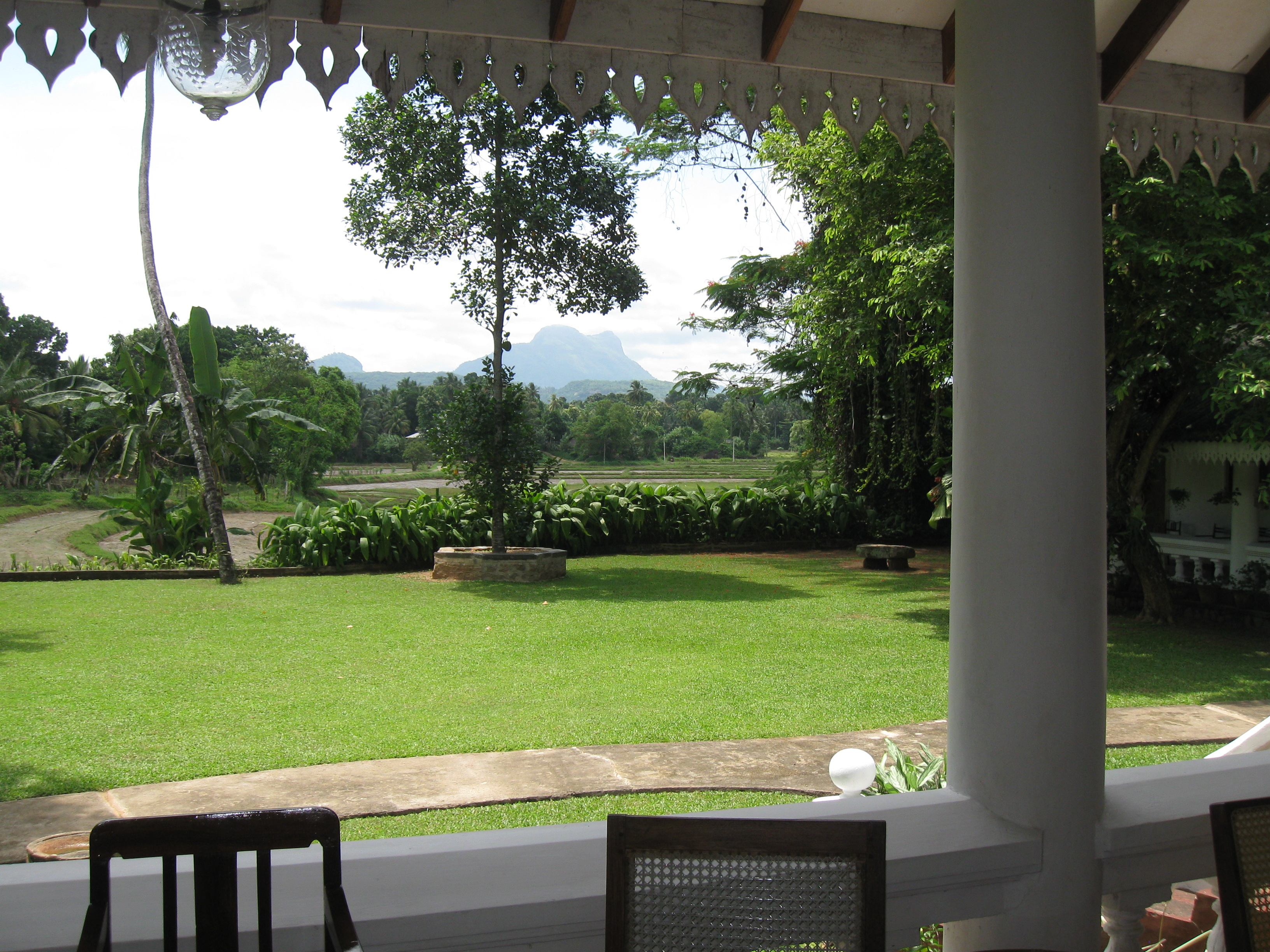 Photograph of View from Meeduma Walauwa, Rambukkana, Sri Lanka.